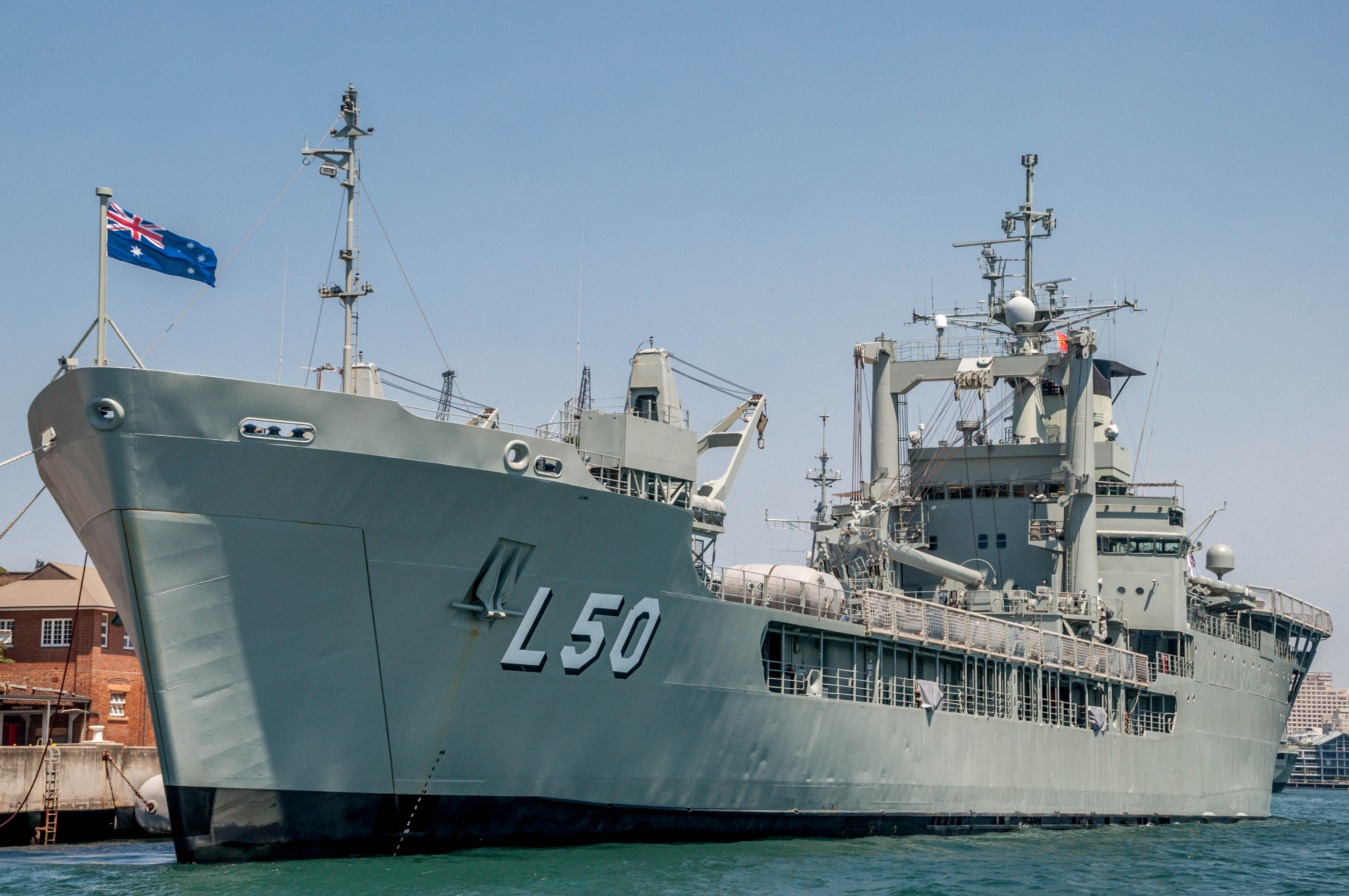 HMAS Tobruk (L 50) at Garden Island, Sydney